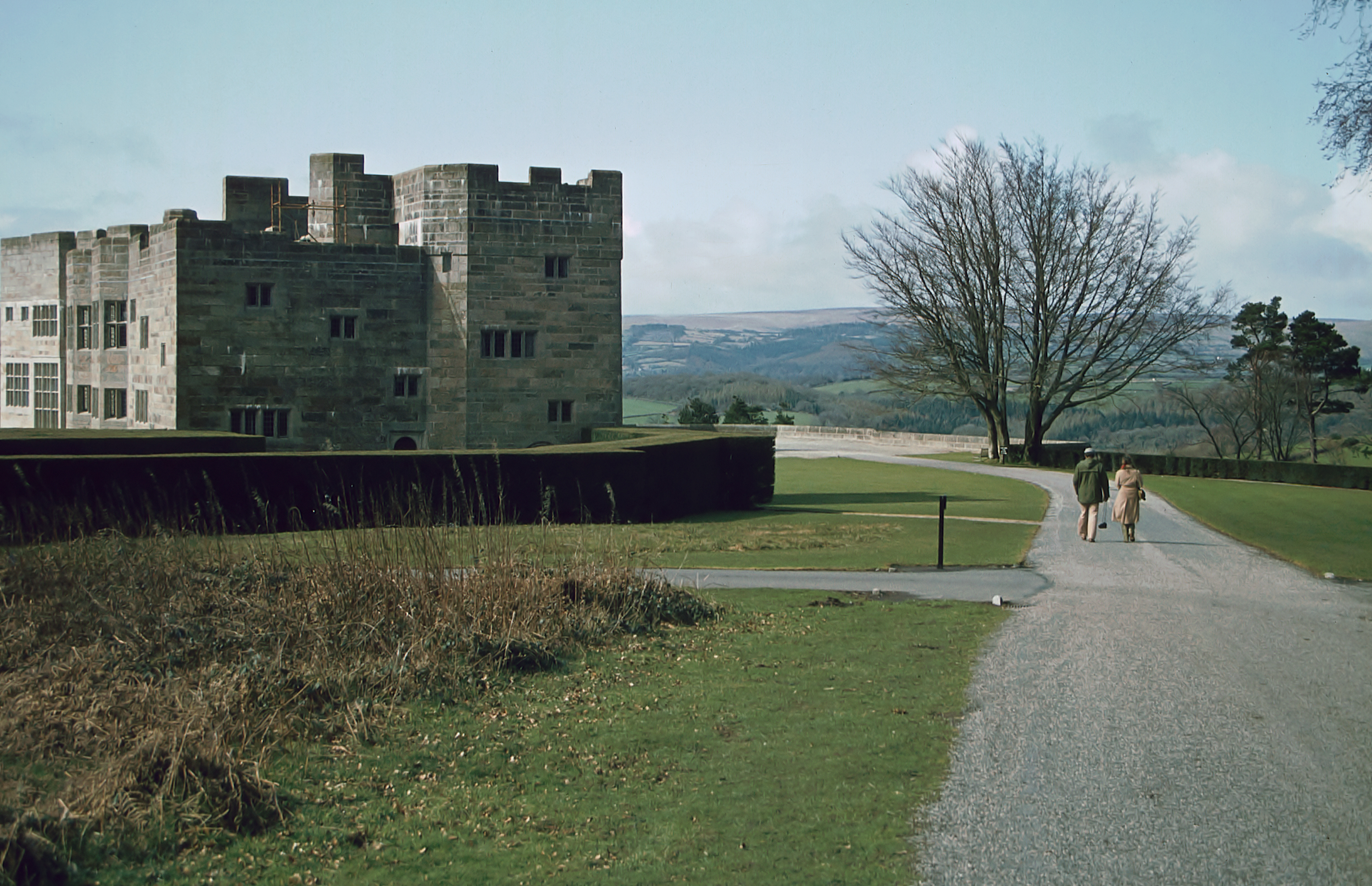 Castle Drogo, located in the county of Devon/GB